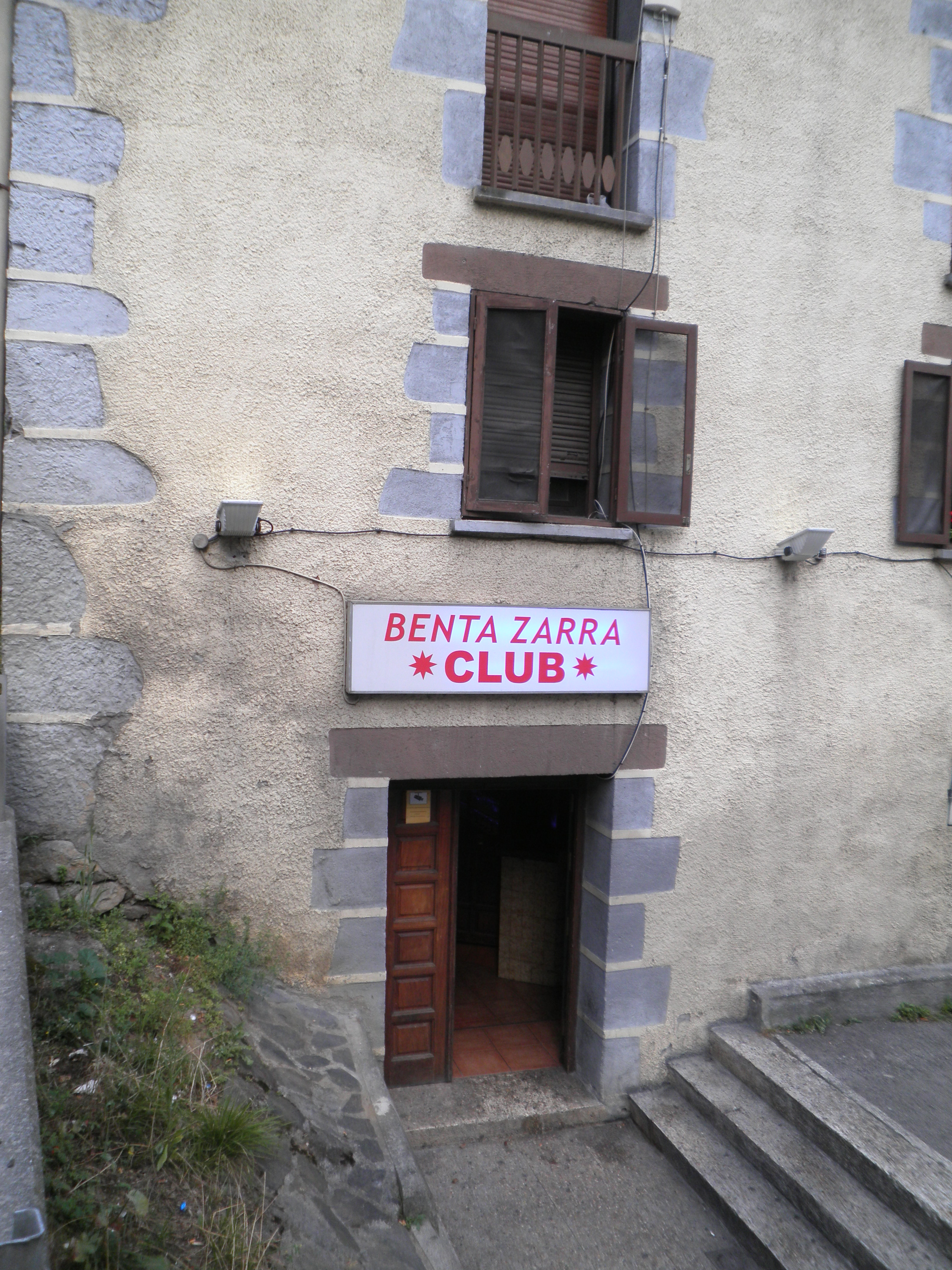 Benta Zarra club in Bidania.